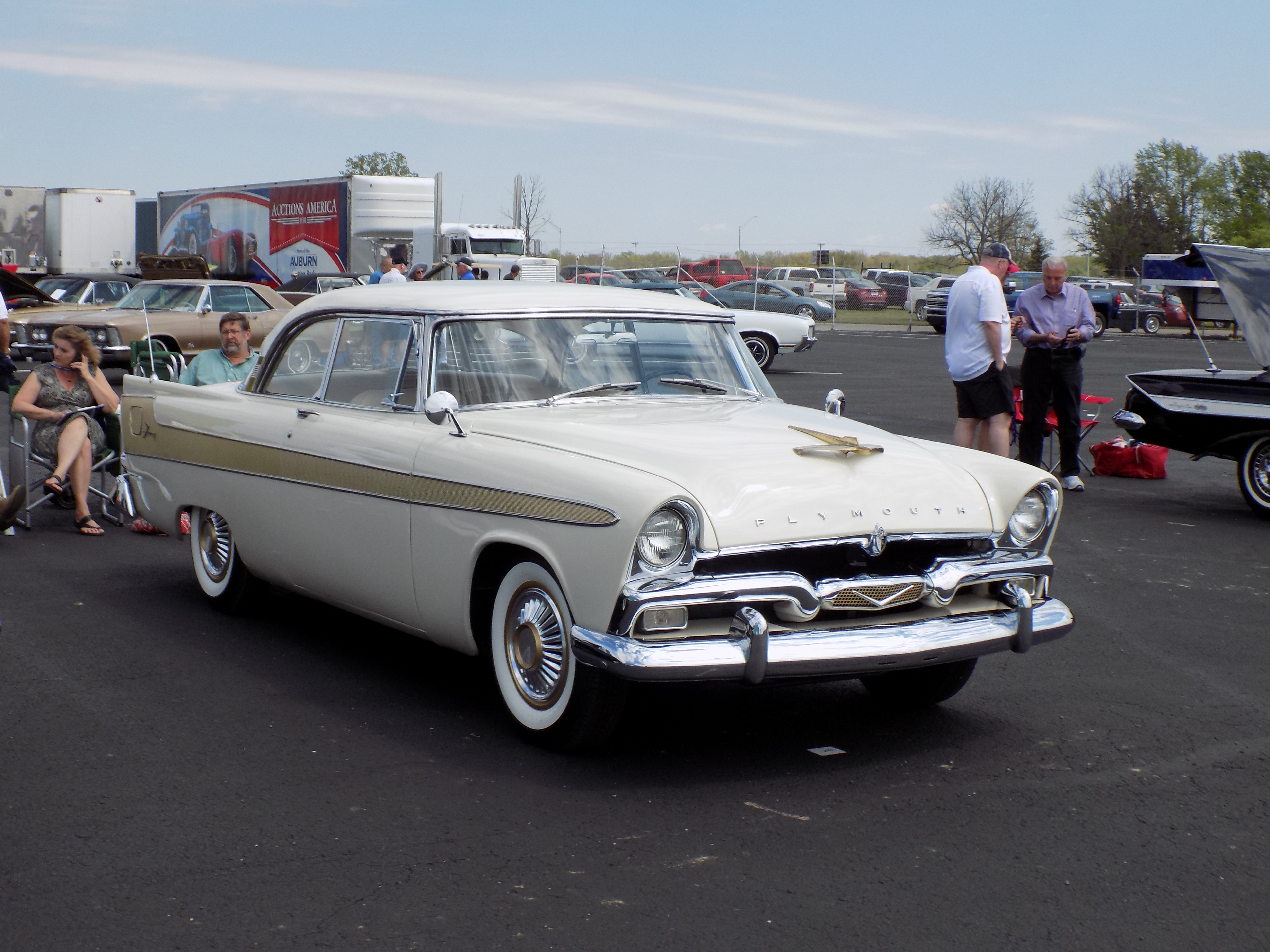 Auburn Spring RM Sotheby's Auctions America Auburn Auction Park Auburn, Indiana May 2017 Click here for more car pictures at my Flickr site. Or here for my Car Crazy Tumblr site. Or on Twitter @DVS1mn.